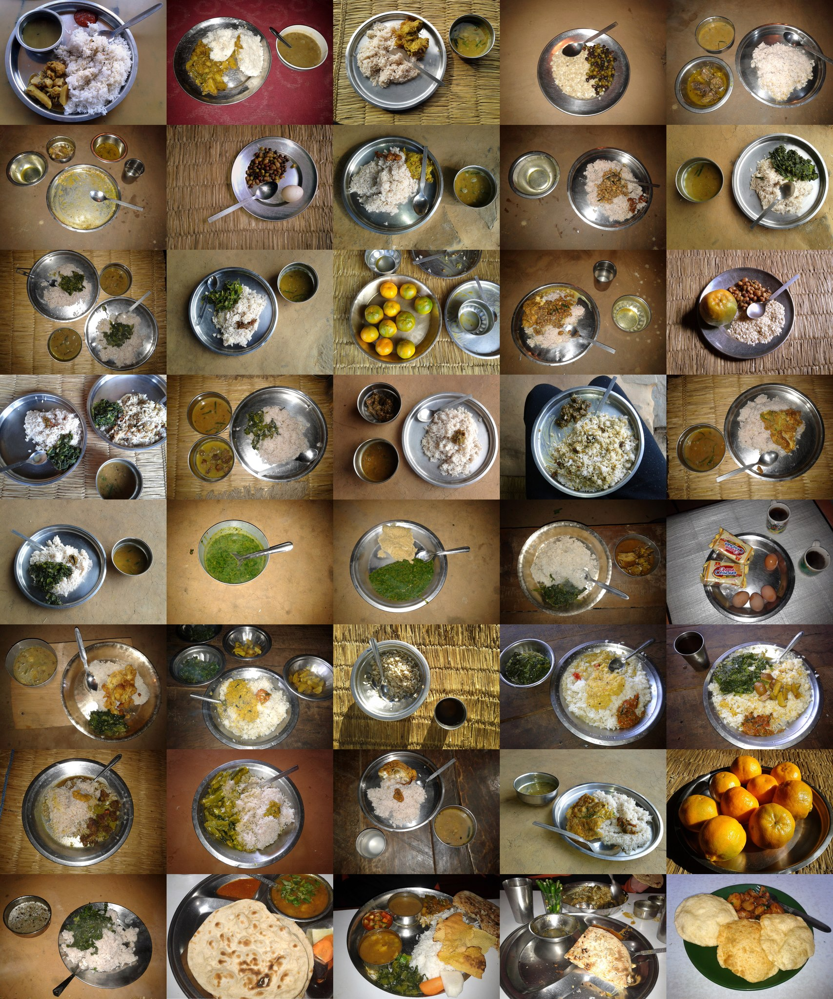 Dal bhat - typical Nepali dish